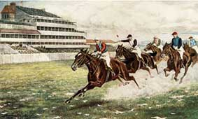 Isinglass Wins The Derby, the form horse of 1893 romps home in that years classic Epsom Derby